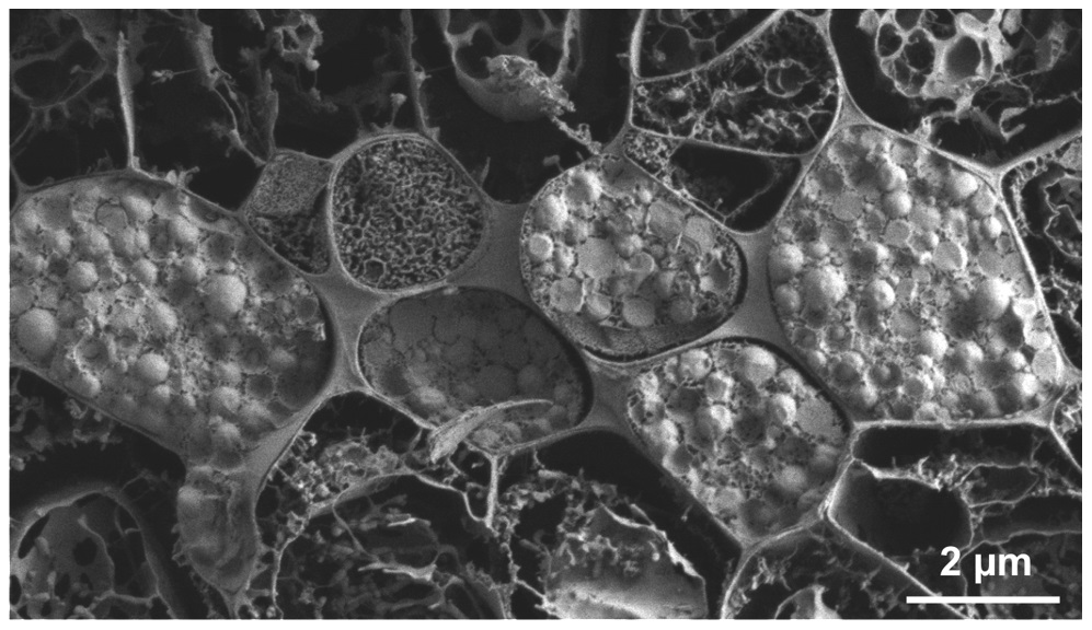 Laticifers in Campanula glomerata petiole (Cryo-SEM image).